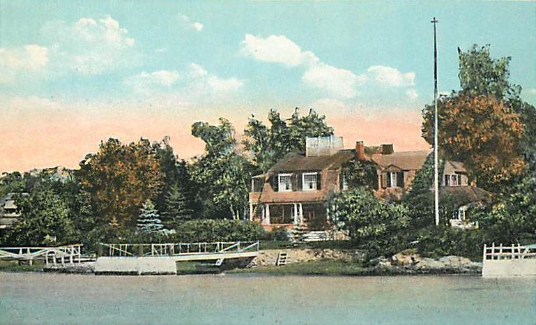 Greywood, Kennebunkport, Maine. Overlooking the Kennebunk River, Greywood was the summer home of Margaret Deland (1857-1945), novelist.